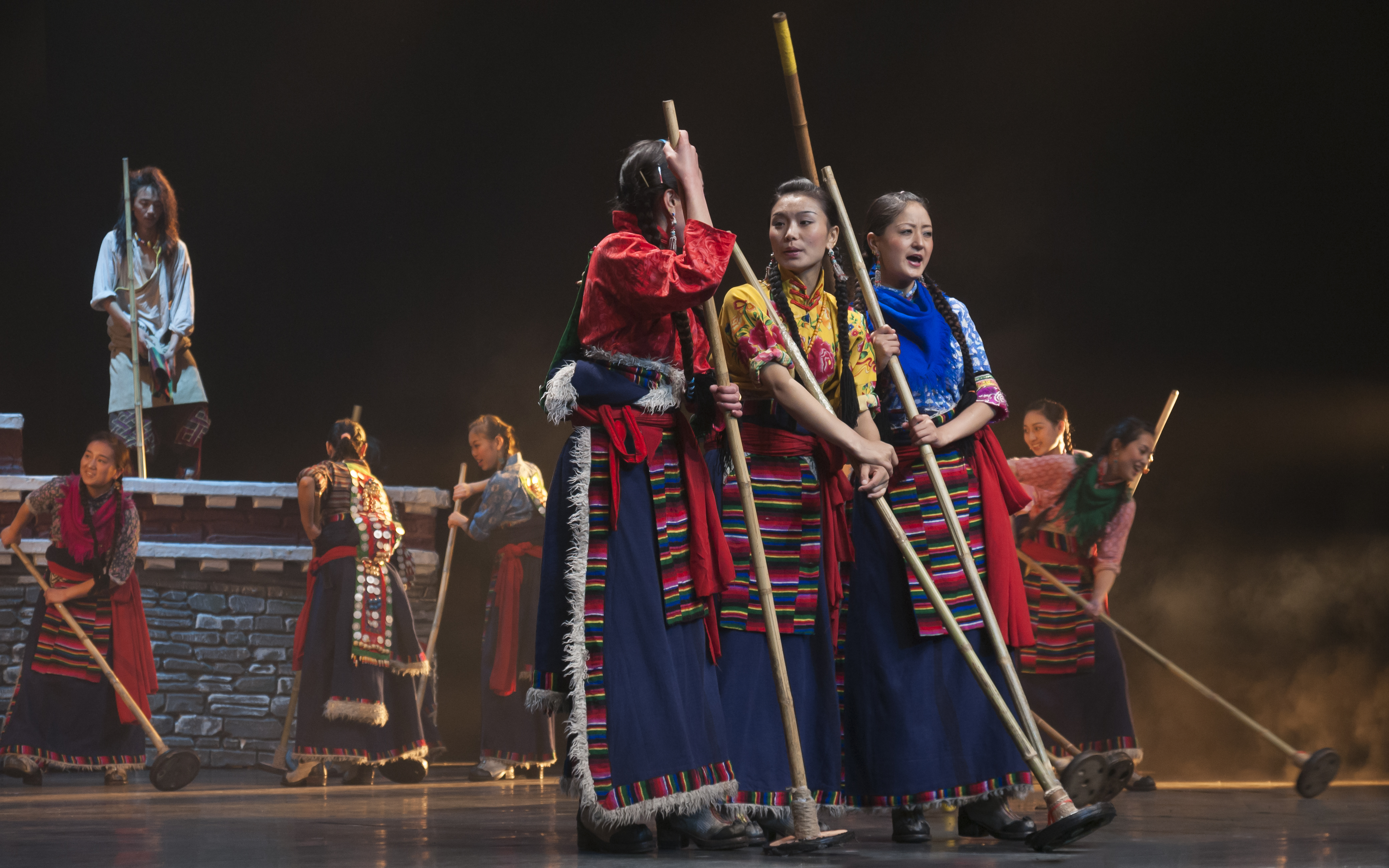 Jiuzhaigou, Sichuan, China: Actors in colourful costumes during a show in "Jiuzhaigou Tibetan Mysteri Theater"